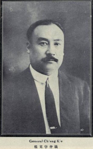 Cheng Ke, Zhongyu(1878 - 1936)